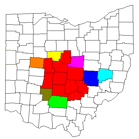 Map of Columbus-Marion-Zanesville, OH Combined Statistical Area (CSA): Red: Columbus, OH MSA Yellow: Marion County, Ohio (Marion, OH µSA) Blue: Muskingum County, Ohio (Zanesville, OH µSA) Light Green: Ross County, Ohio (Chilicothe, OH µSA) Light Purple: Knox County, Ohio (Mount Vernon, OH µSA) Orange: Logan County, Ohio (Bellefontaine, OH µSA) Light Blue: Guernsey County, Ohio (Cambridge, OH µSA) Olive: Fayette County, Ohio (Washington Court House, OH µSA)